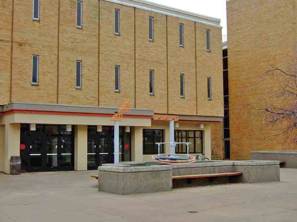 Ottensman Hall (engineering)